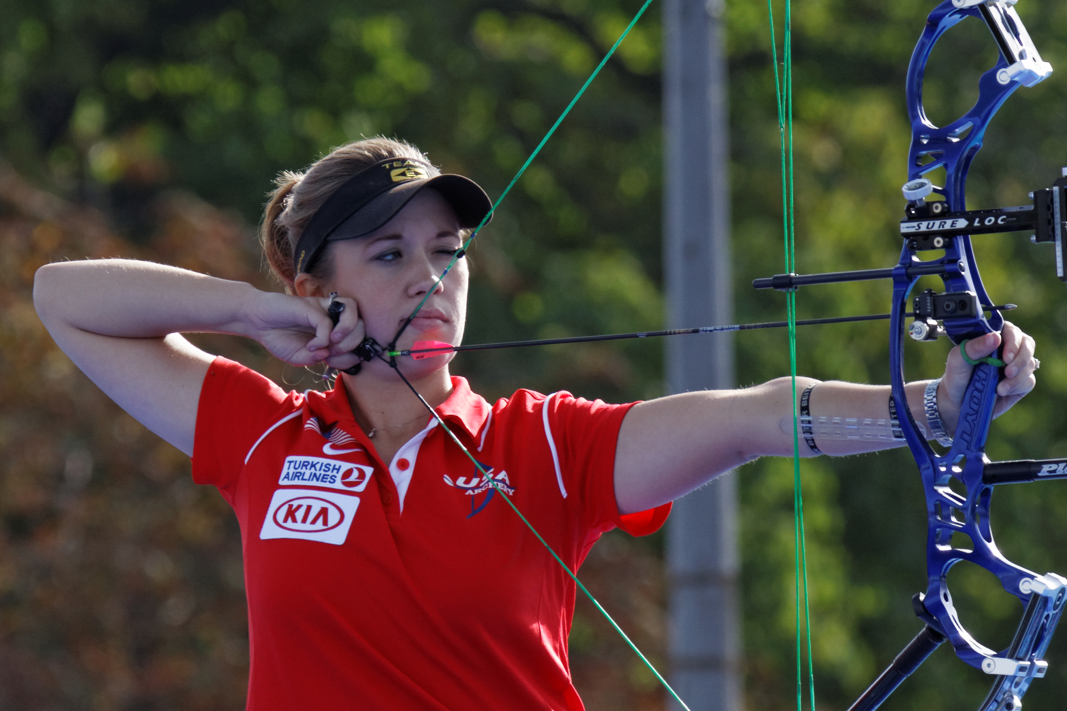 2013 FITA Archery World Cup, Paris, France. Women's individual compound final: Alejandra Usquiano vs Erika Jones.